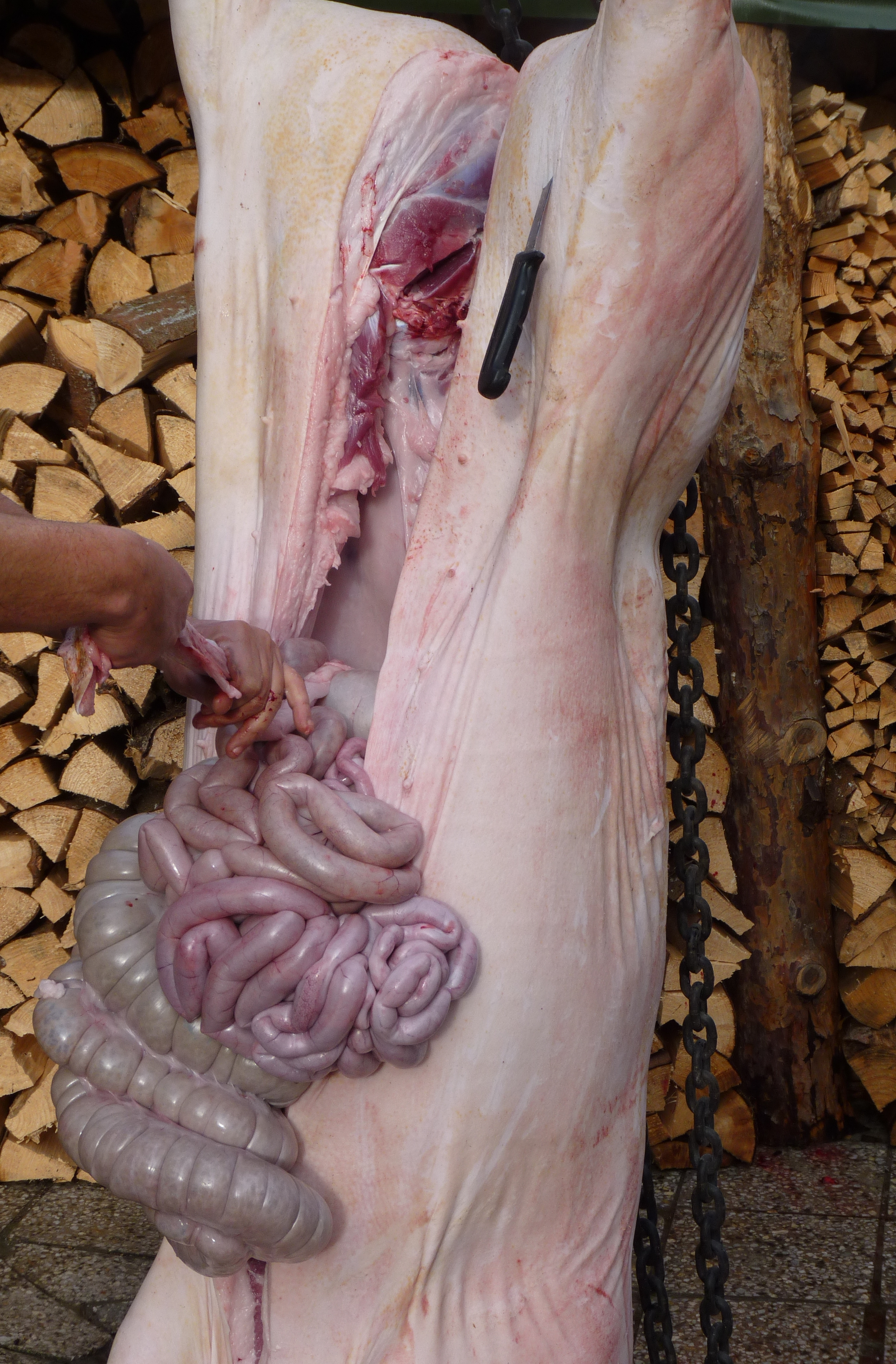 Pig slaughter in the Czech Republic